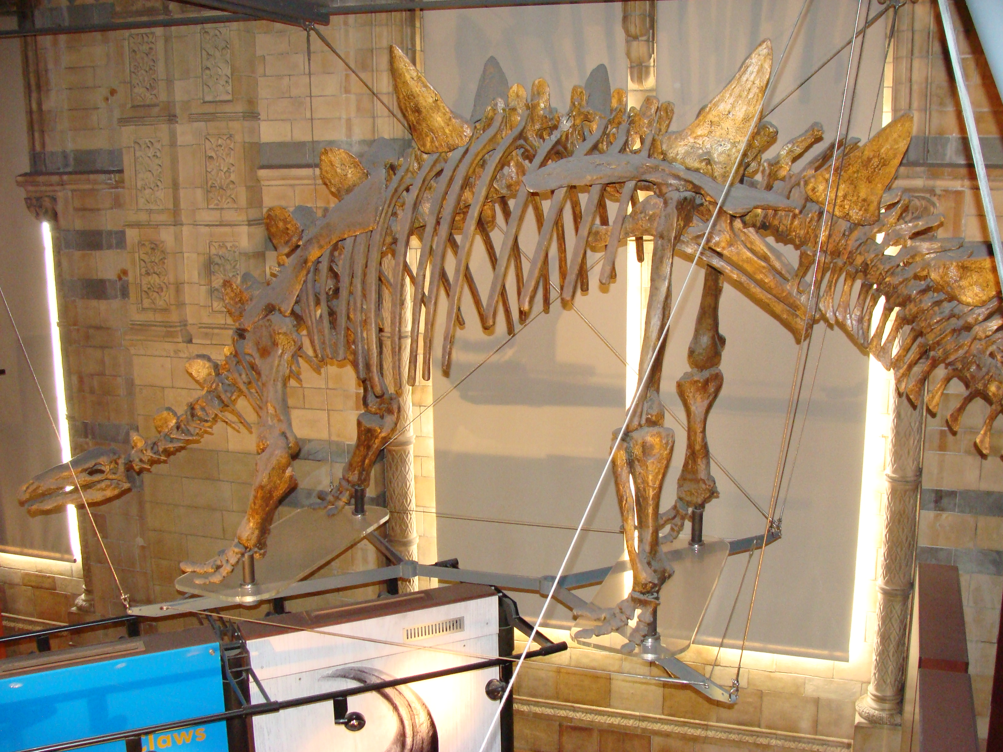 Tuojiangosaurus multispinus in the Natural History Museum of London